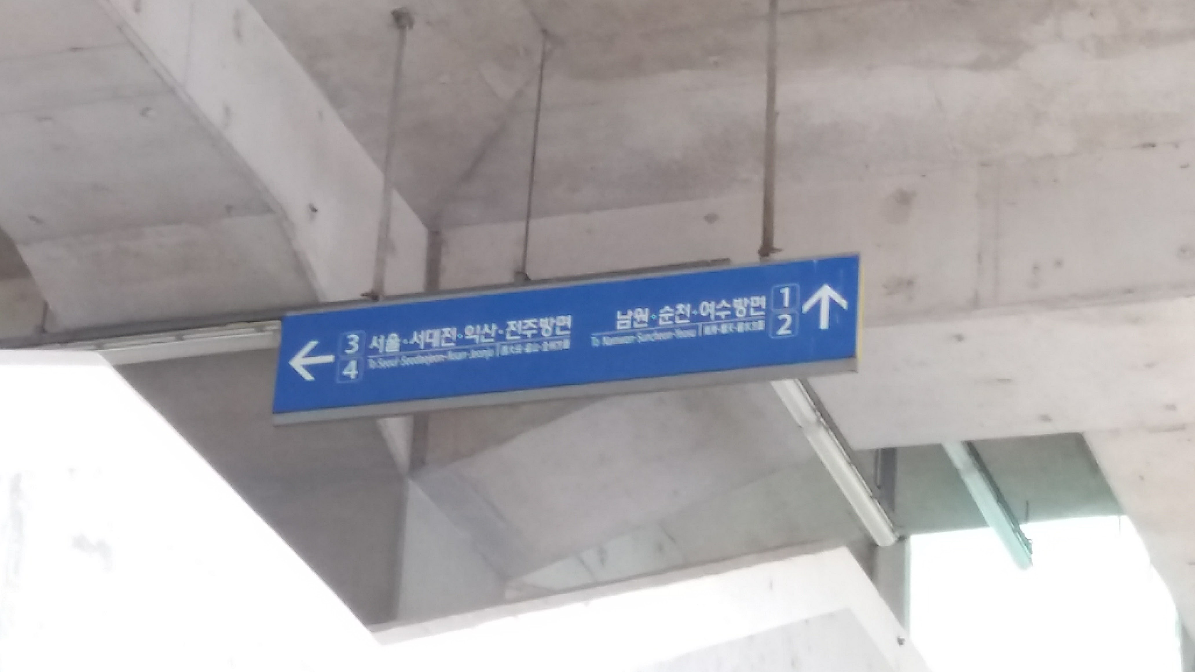 Jeolla Line Bongcheon Station platform information notice